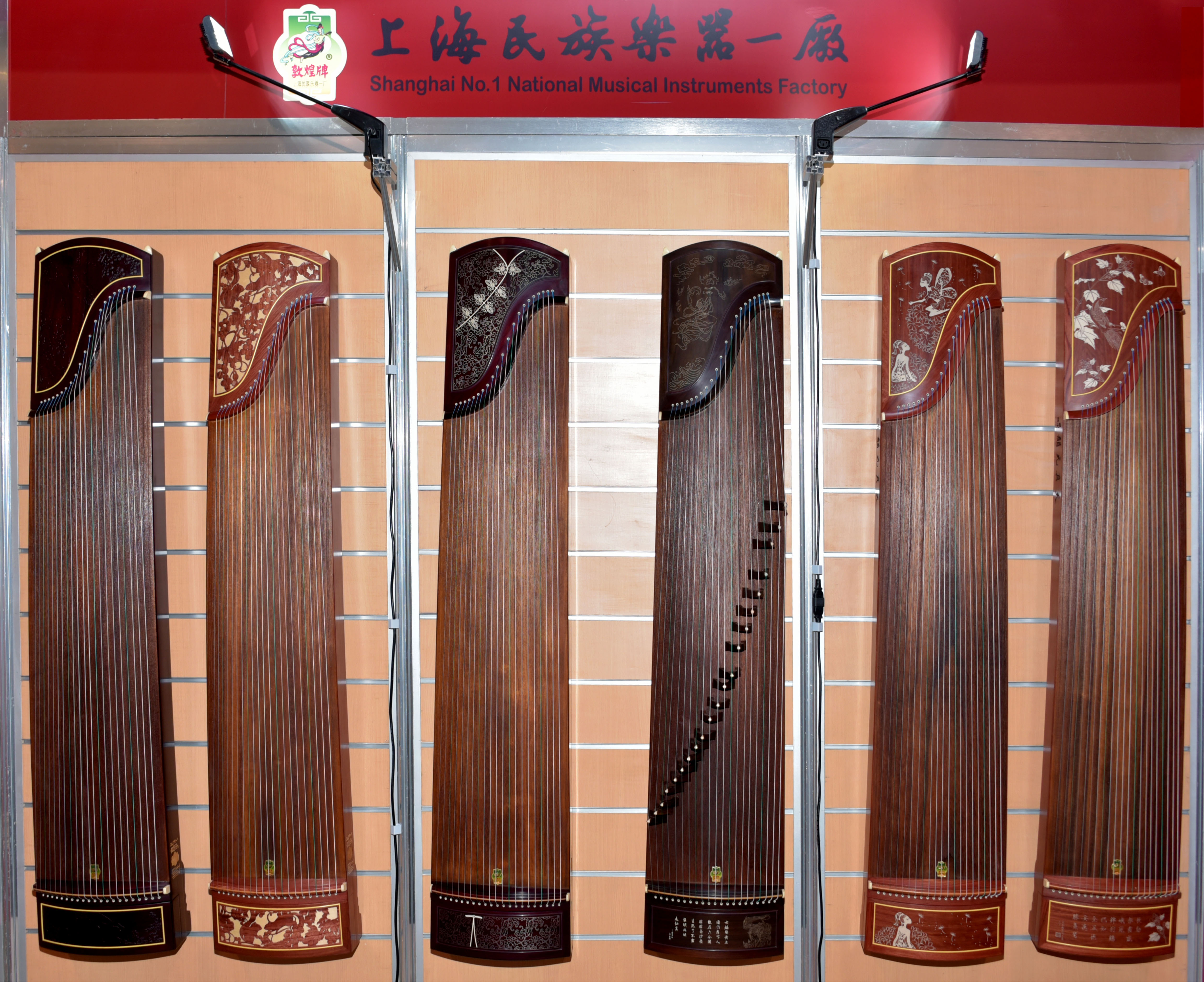 Guzhengs on display at 'The NAMM Show' on January 17, 2020 in Anaheim, California - Photo by Glenn Francis of